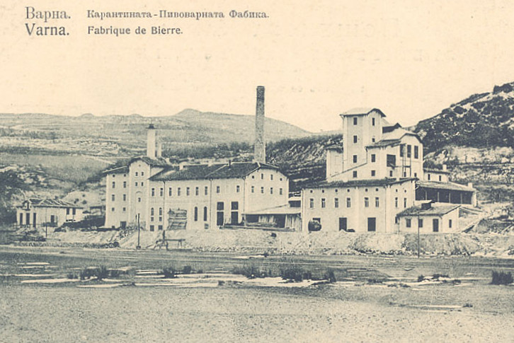 Galata Brewery - Varna - 1909